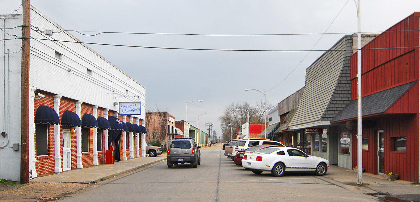 historic district Dardanelle downtown building on right handside of picture is Riverfront Antiques.